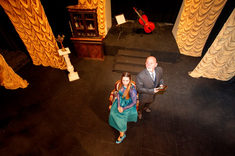 Shows of National Theater of Kosovo